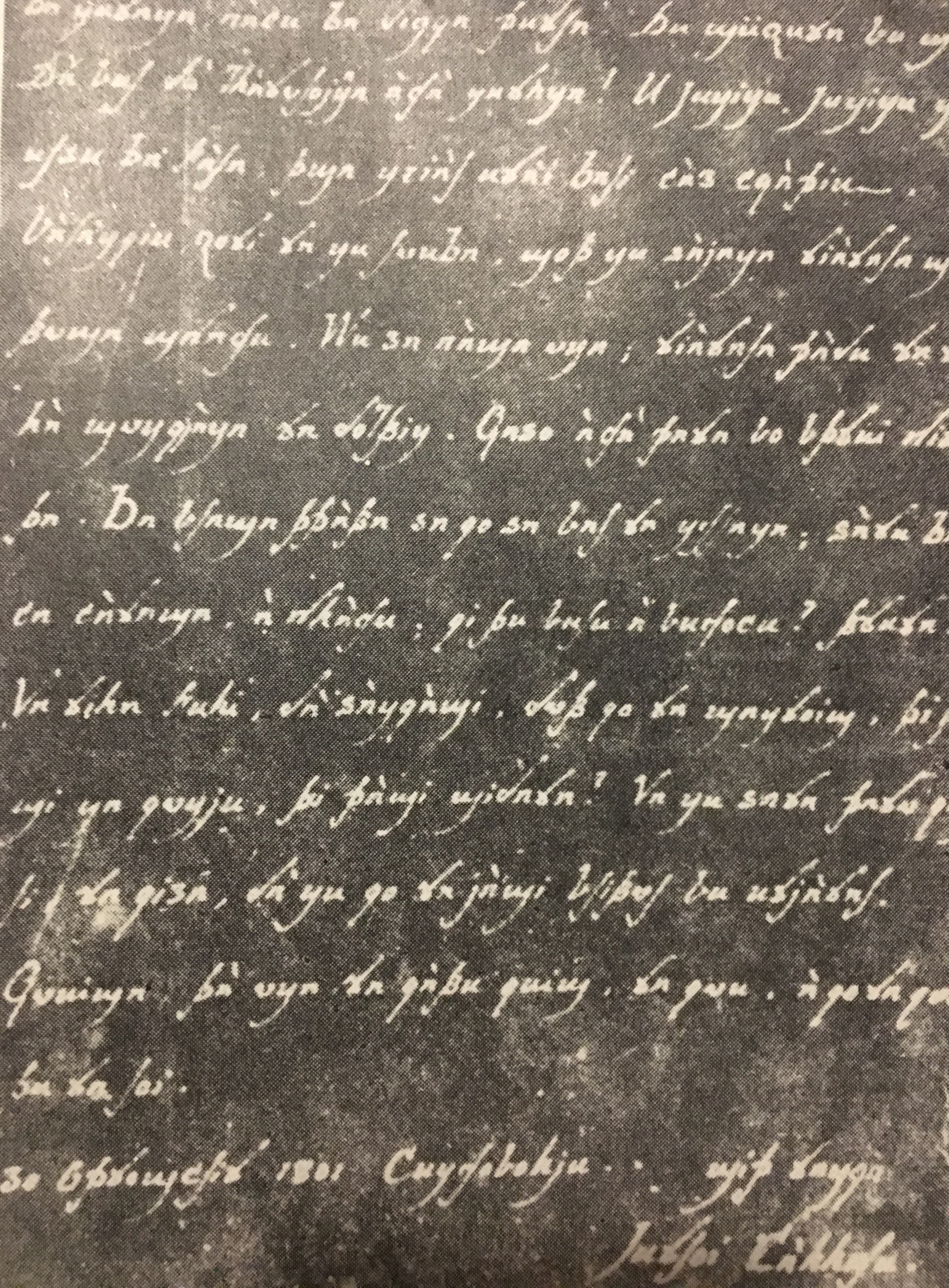 Correspondence of Jan Vellara, in Albanian, with original alphabet. Signed by Vellara, Vokopolje, Berat, 1801